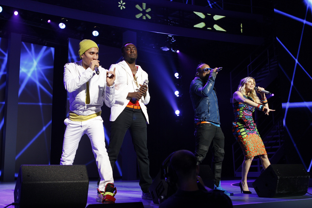 Black Eyed Peas during Walmart Shareholders' Meeting 2011